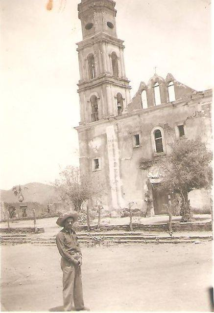 Colección fotográfica de Carlos Manuel Aguirre